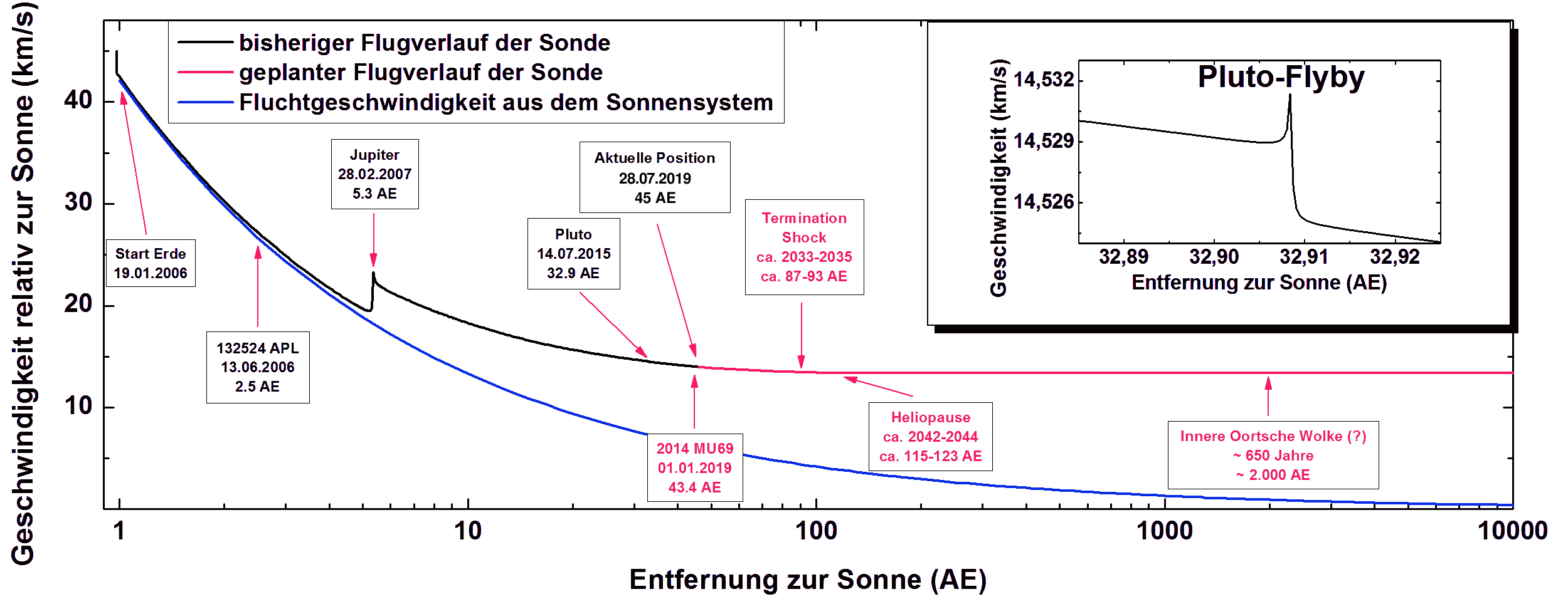 Past and future mission of the New Horizons probe based on their velocity w.r.t. the sun